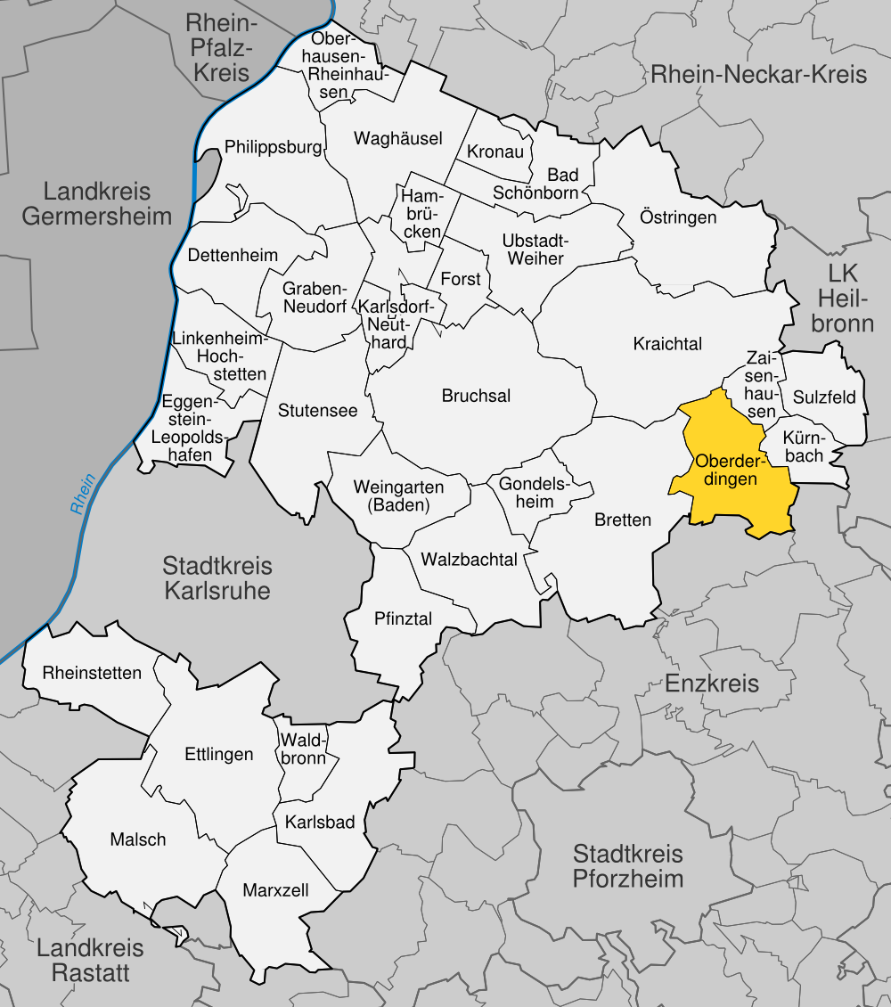 position of Oberderdingen within distict of Karlsruhe, Baden-Württemberg, Germany